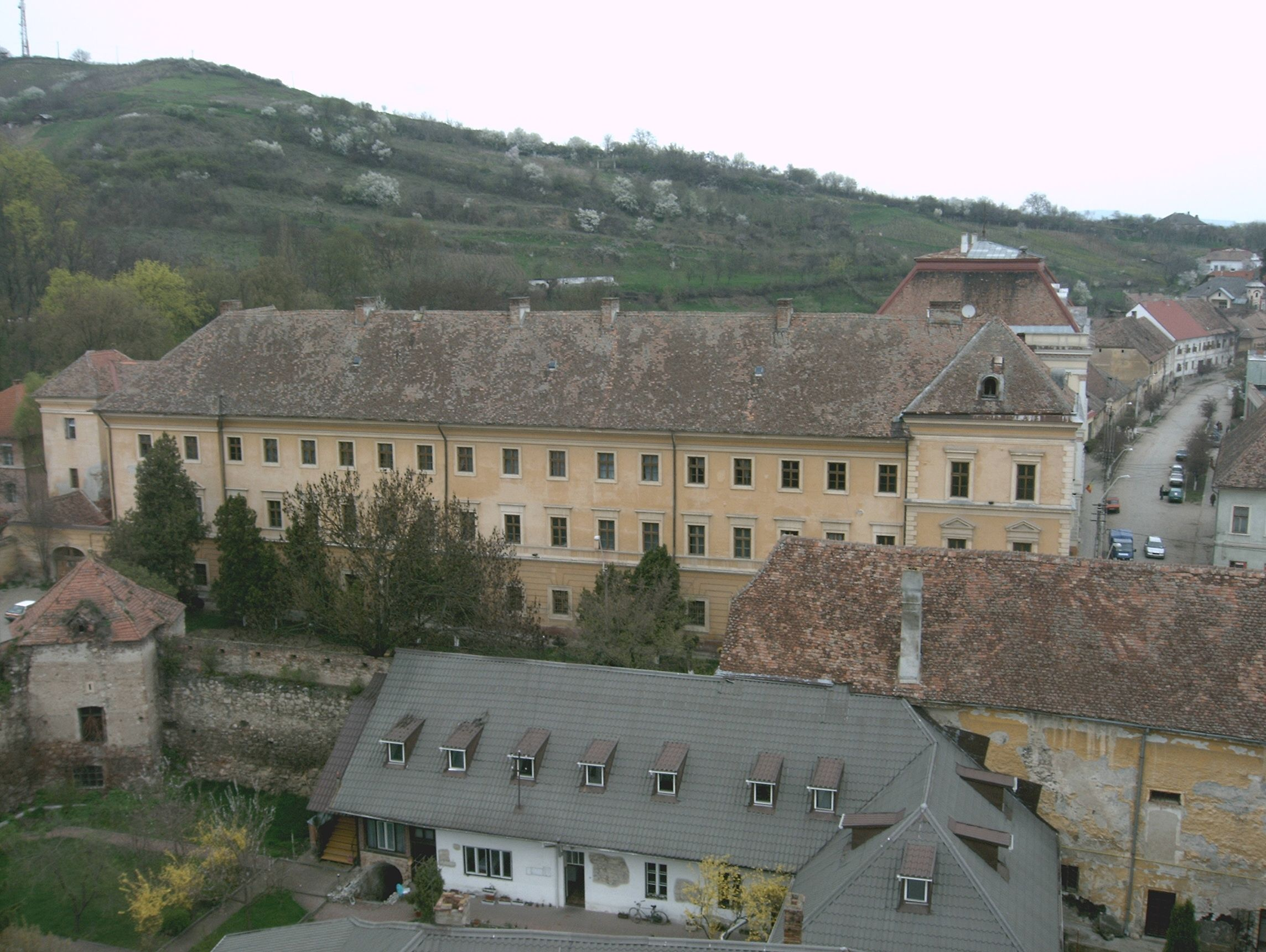 View of Aiud's boarding school from the (reformed) church.